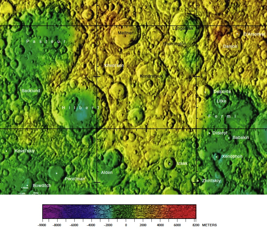 Part of the USGS far side lunar chart